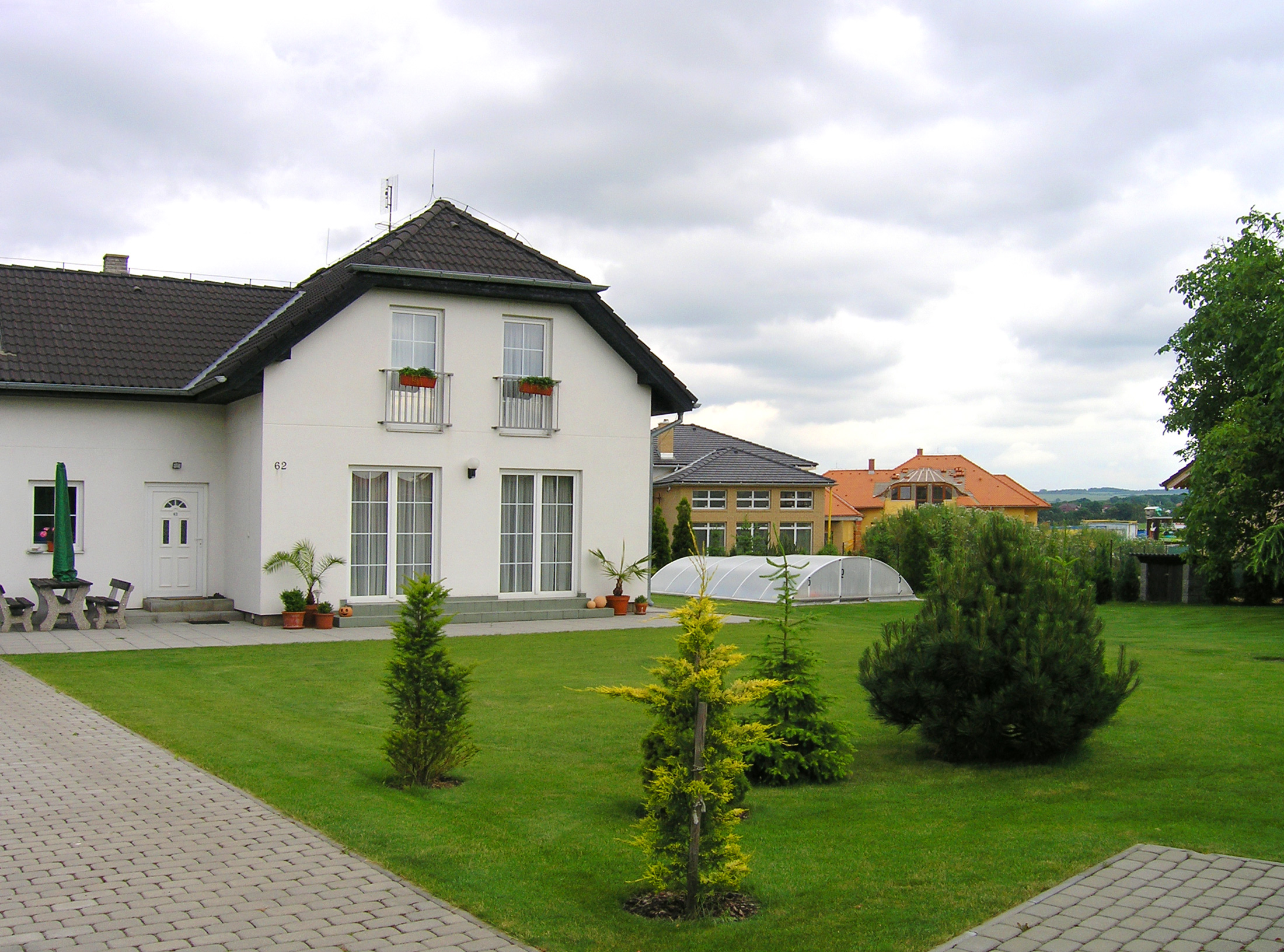 New housing in Hrnčířská street in Zdiměřice, part of Jesenice, Czech Republic